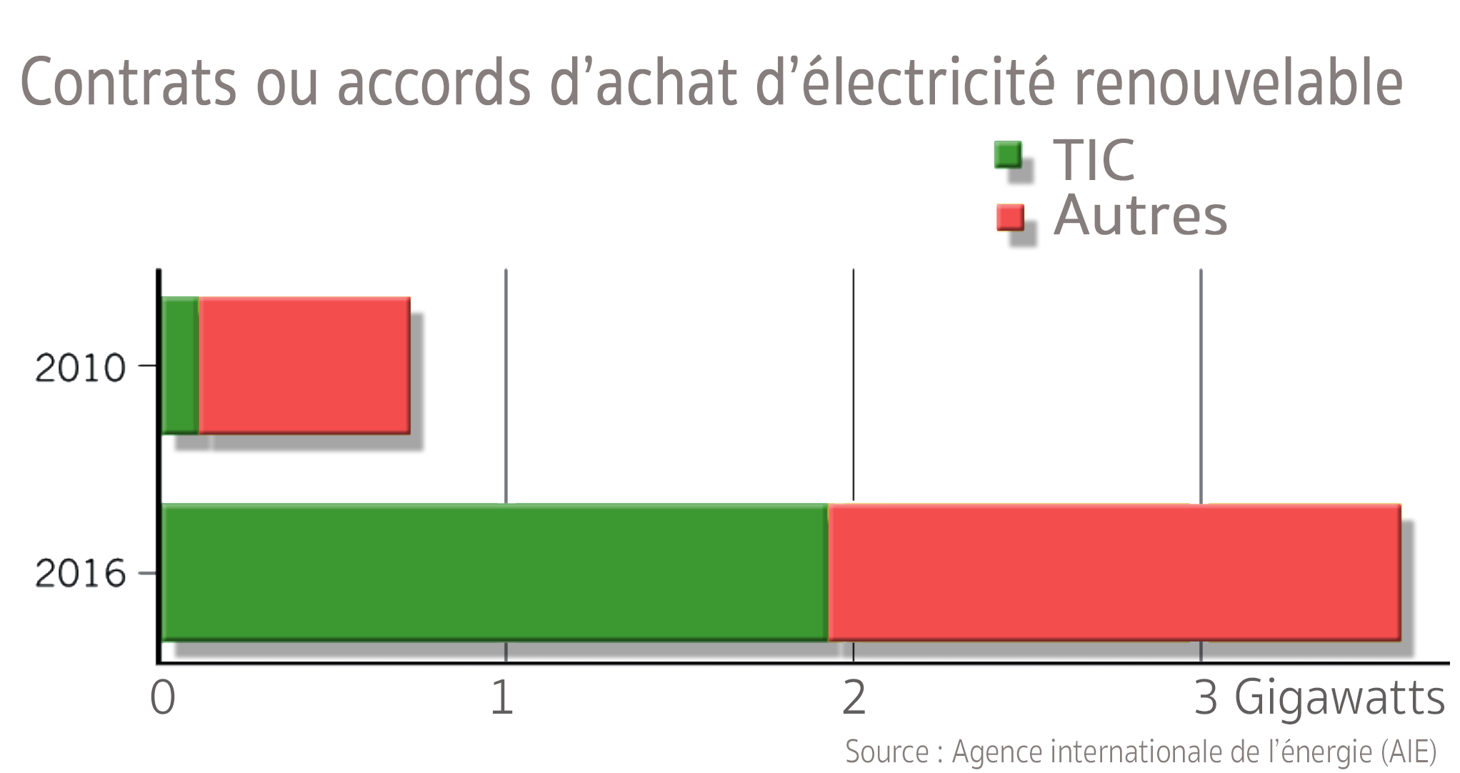 The ICT industrie dominates corporate agreements to purchase renewable electricity